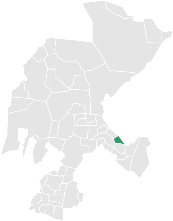 Map of the Municipality of Villa González Ortega in Zacatecas, México.